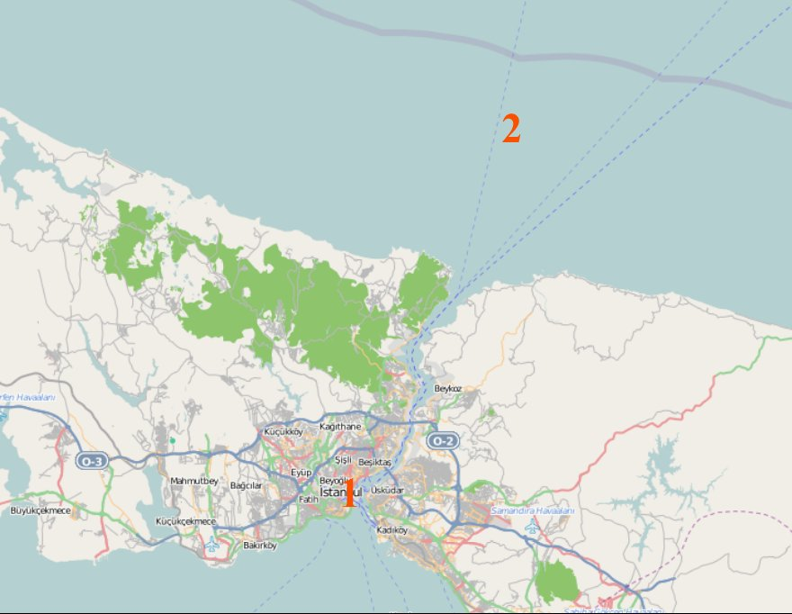 Map of the Bosphorus showing the location of the Struma in Istanbul harbor (1), and its eventual sinking point after it was towed out to the Black Sea (2). This map may be incomplete, and may contain errors. Don't rely solely on it for navigation.